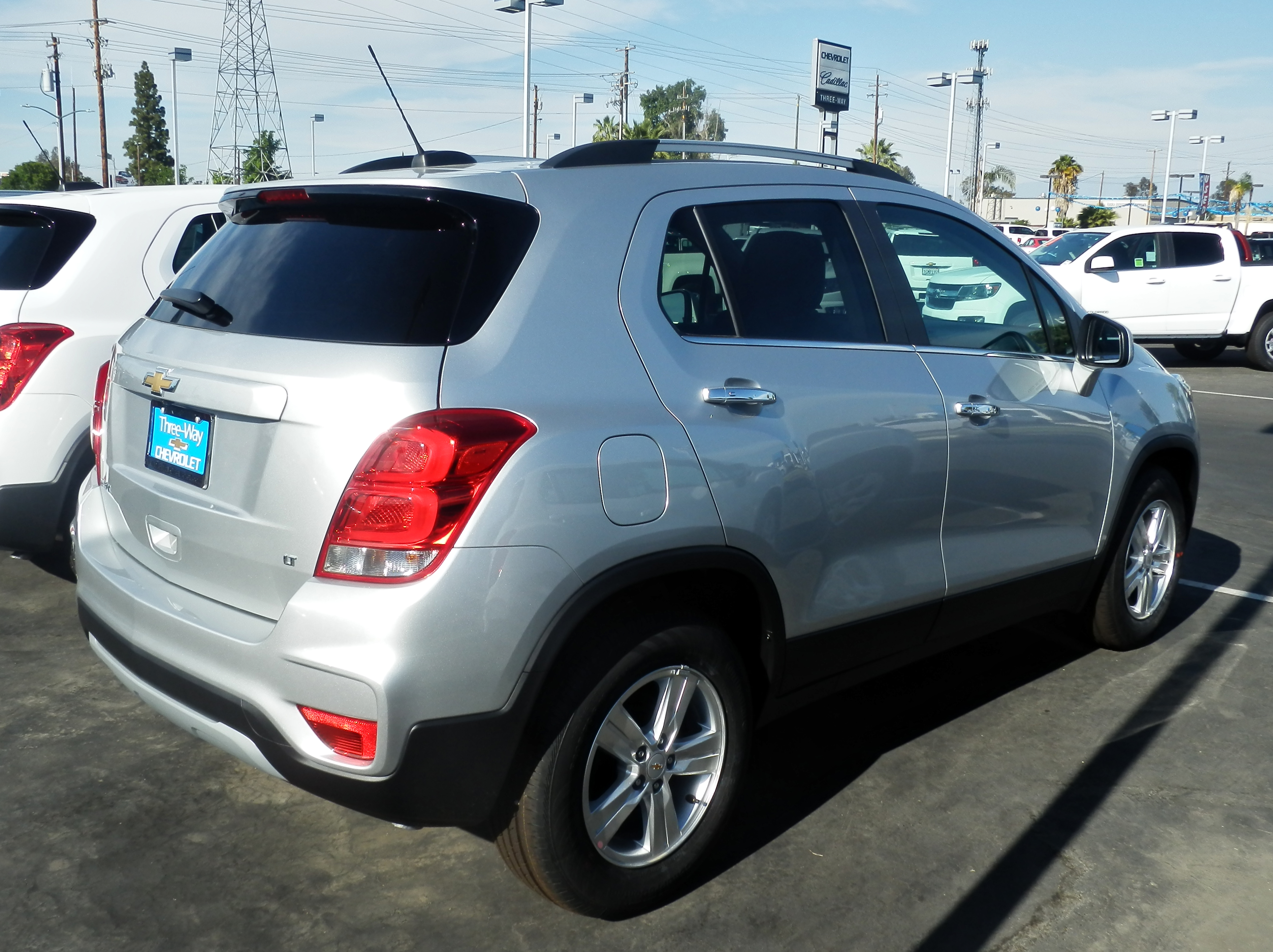 Chevrolet Trax in Bakersfield